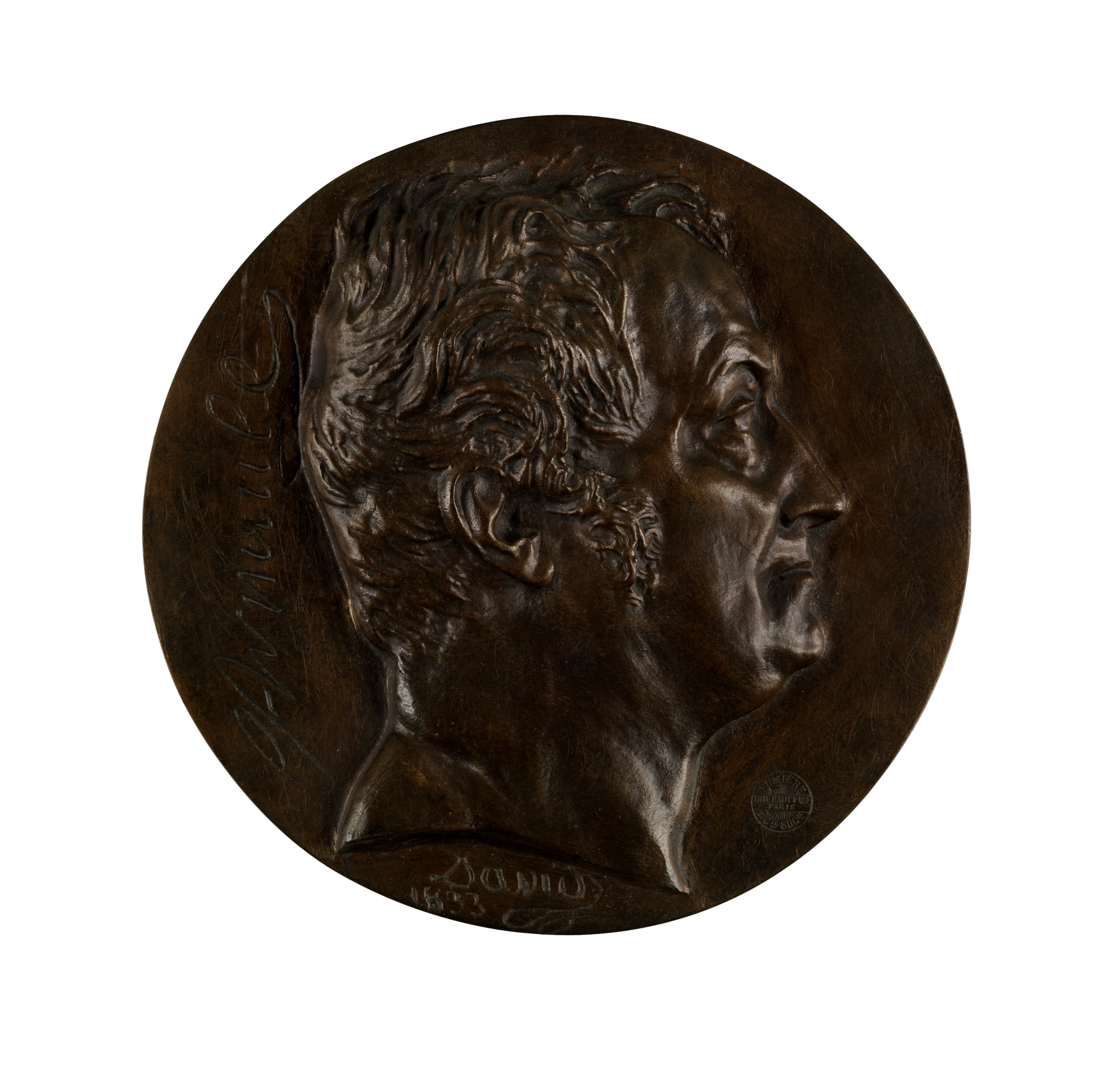 Antoine-Vincent Arnault, French dramatist, was born in Paris in 1766. Author of republican tragedies, he left France during the Reign of Terror and was arrested upon his return. Later in life, he served Napolean and was exiled for his support. He later became perpetual sectretary of the Académie Française in 1833, and died in 1834.